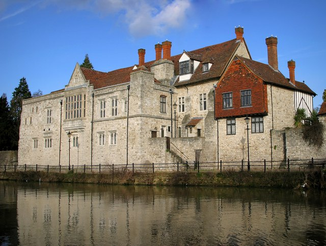 Archbishop's Palace across the Medway